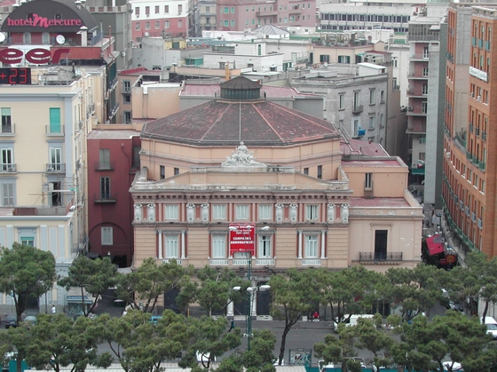 Napoli (NA), 2002, Dagli spalti del Maschio Angioino.